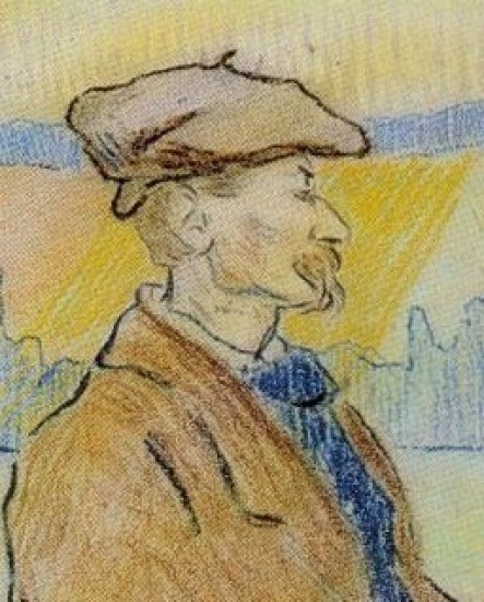 Selfportrait